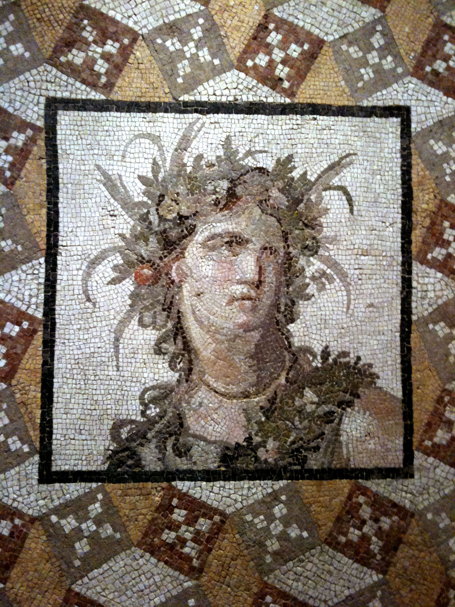 So-called Antioch Mosaic, second half of 2nd century; Late Antonine Roman